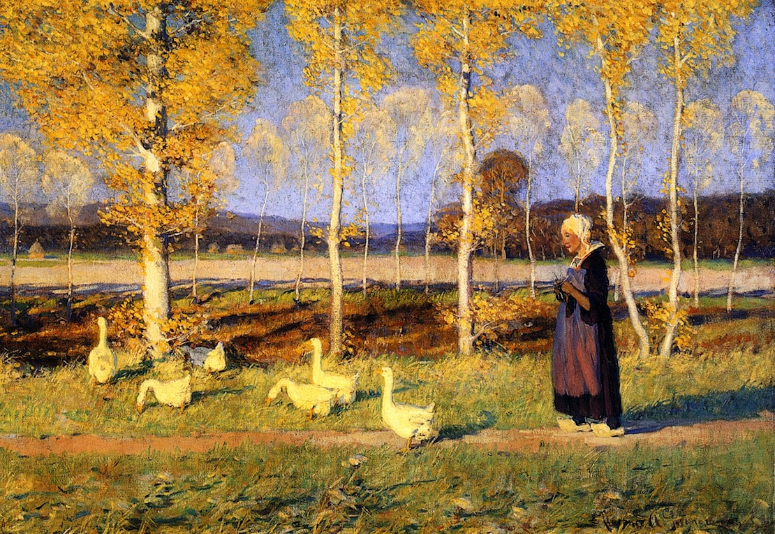 A woman feeds some geese. "All artworks by Clarence Gagnon are in the public domain."